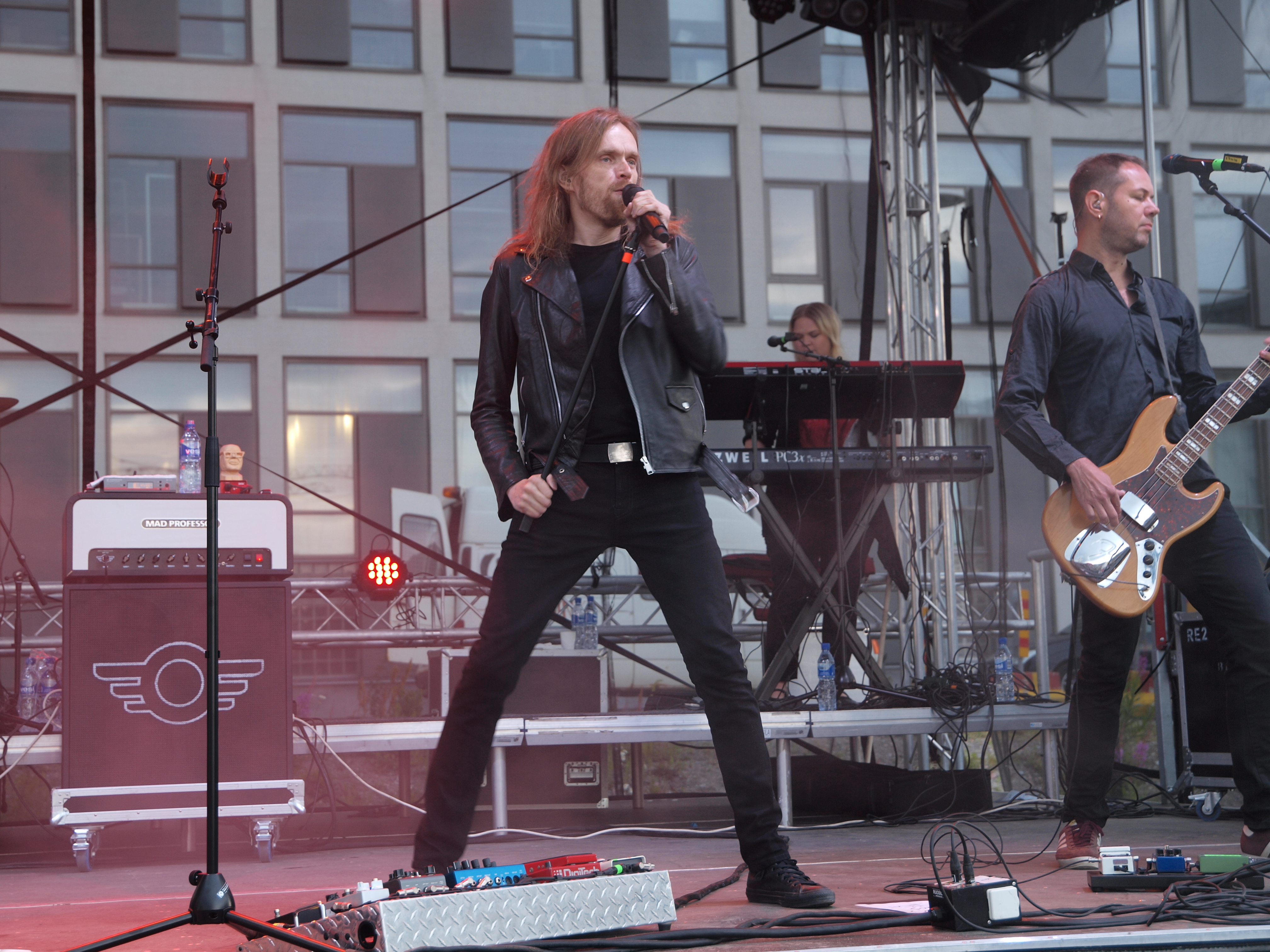 Anssi Kela (left, holding microphone), a Finnish singer/songwriter, performing live at a free concert at Satamahulinat ("Harbour party") in Jätkäsaari, southern Helsinki, Uusimaa, Finland, to celebrate the 50th anniversary of the Helsinki-Tallinn ship route.